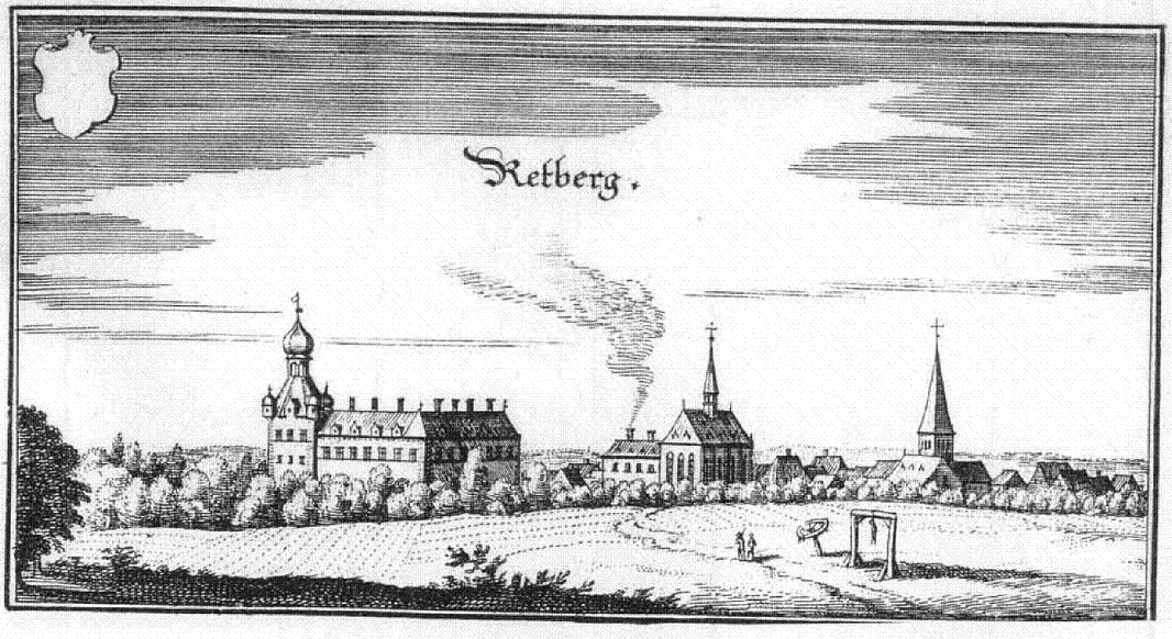 This is a scan of the historical document